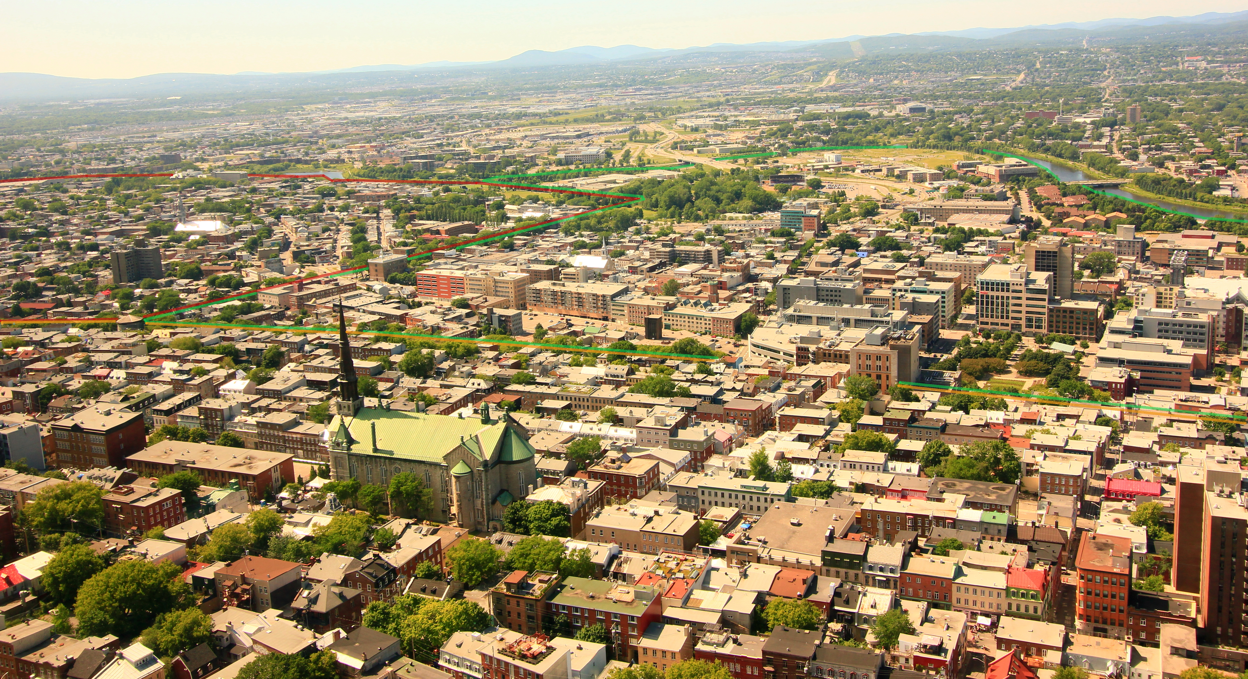 Northwestern view of the borough of La Cité (Quebec City), on which the approximative limits of the neighborhoods on the foreground have been superimposed (by hand). In orange : Saint-Jean-Baptiste (1st foreground) ; In green : Saint-Roch (2nd foreground, right); In purple : Saint-Sauveur (2nd foreground, left)